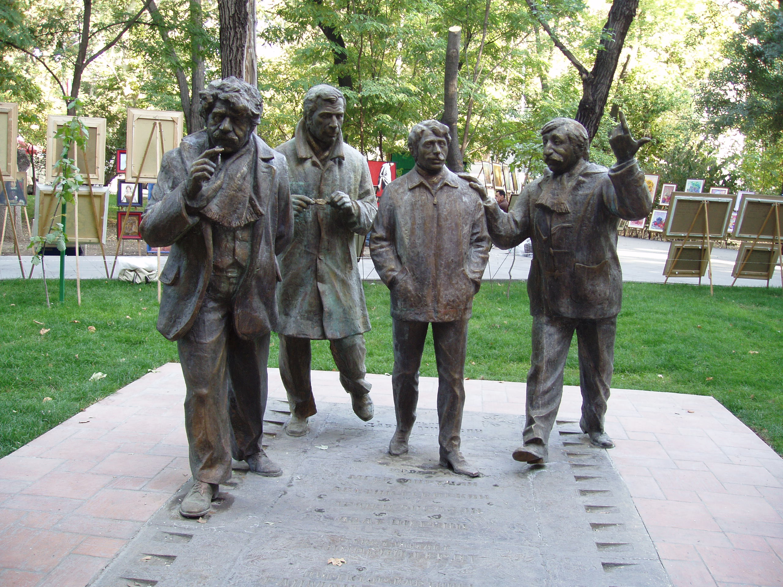 The actors of film "The Men" in Yerevan.